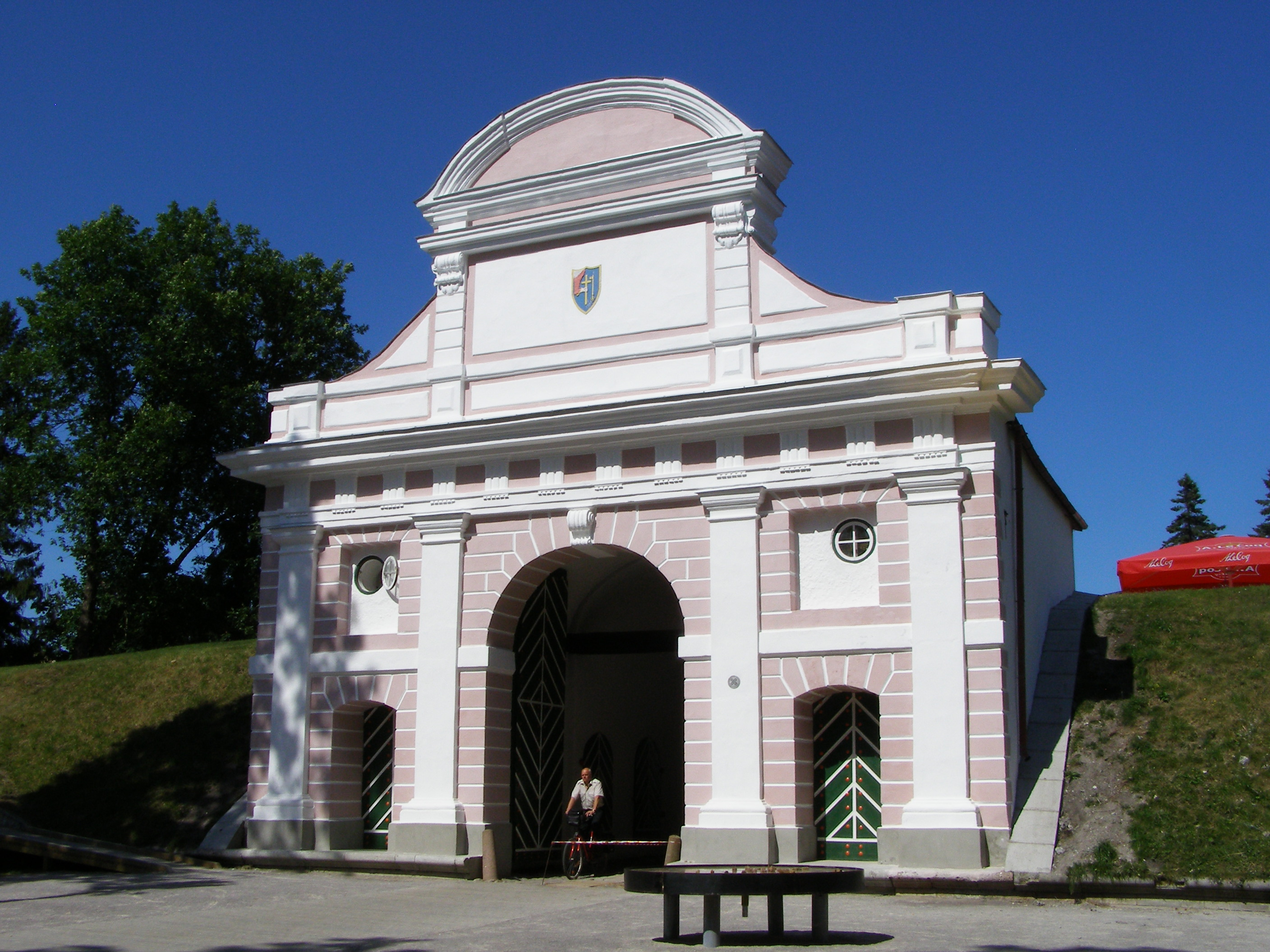 Town gate in Parnu, Estonia